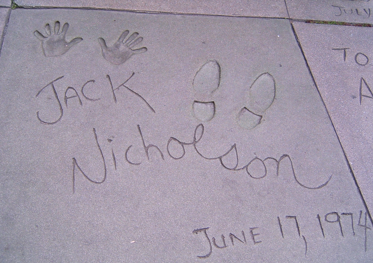 Jack Nicholsons foot/handprint at Grauman's Chinese Theatre, in Los Angeles, California.